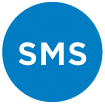 Saint Mary's School Logo